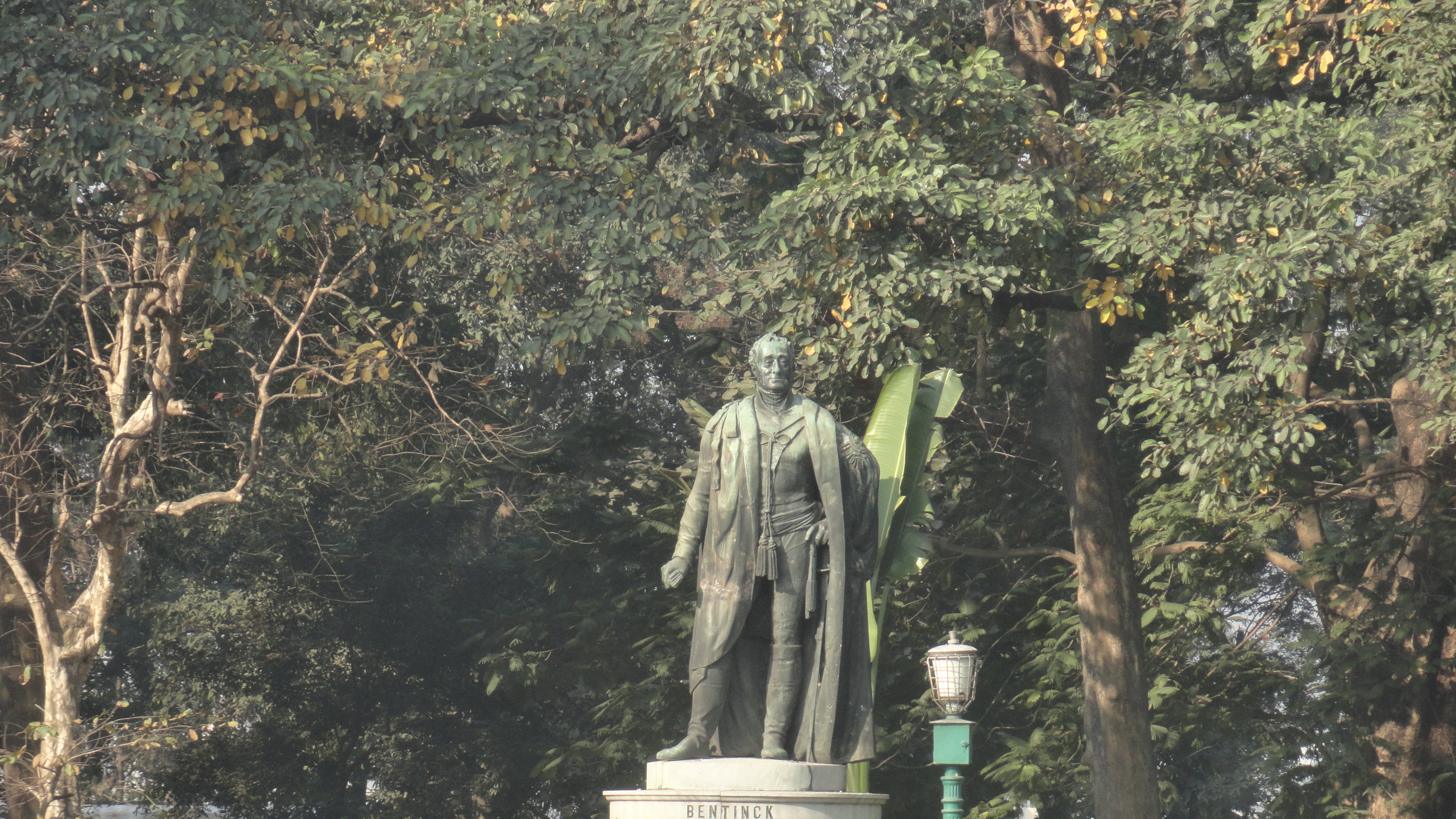 statue at victoria memorial. kolkata